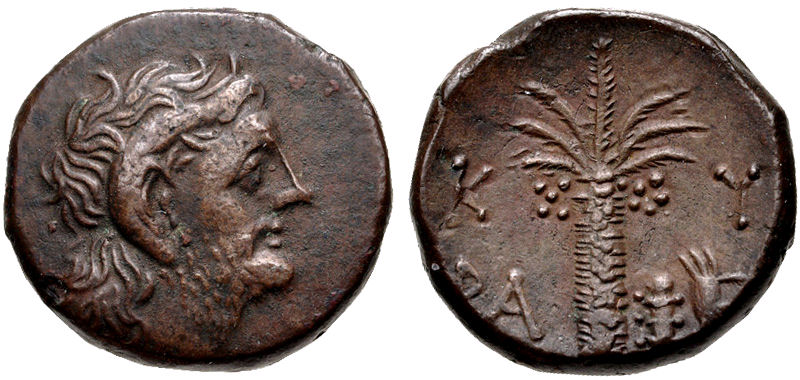 Magas as king of Kyrene, circa 282 or 275 to 261 BC